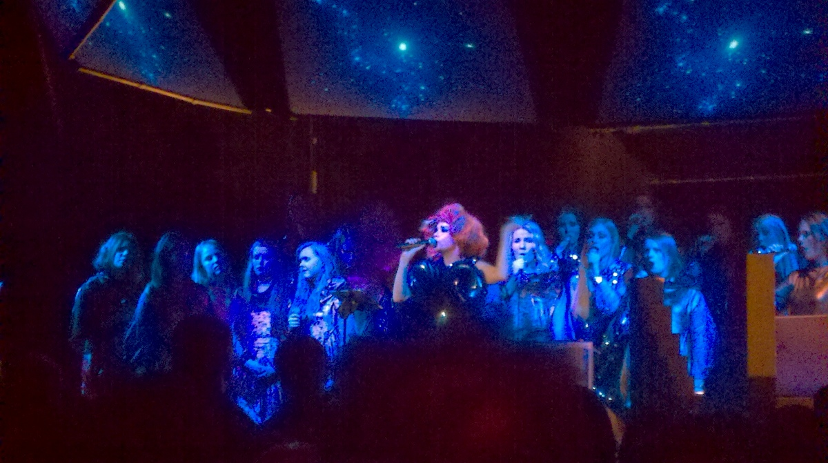 Bjork @ Roseland Ballroom, New York, 3/5/2012